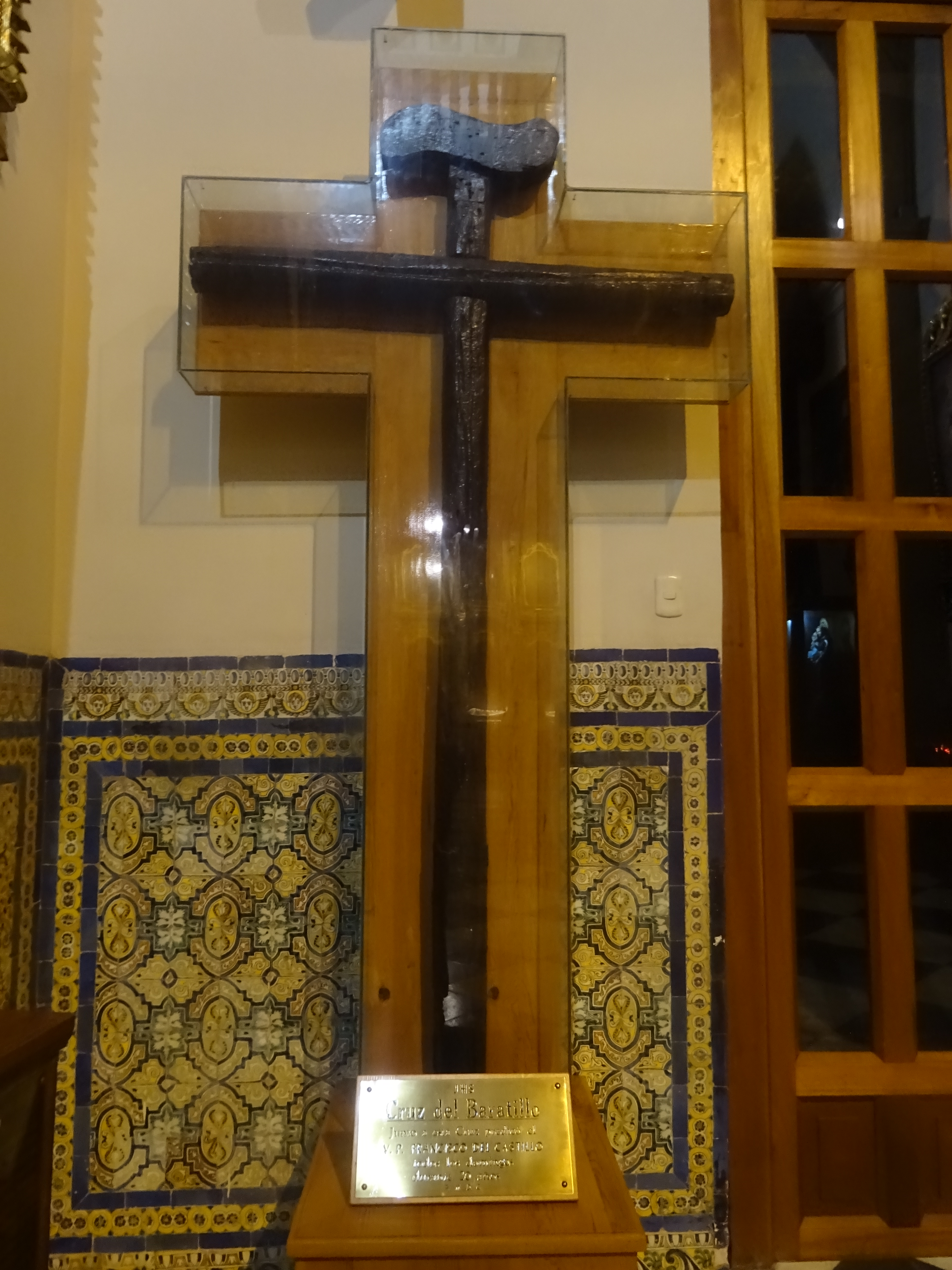 Cross of Baratillo used by Francisco del Castillo S.J.